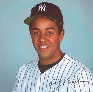 Professional baseball player Bobby Meacham